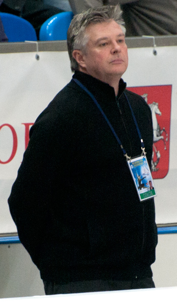 2011 Cup of Russia, free skating.